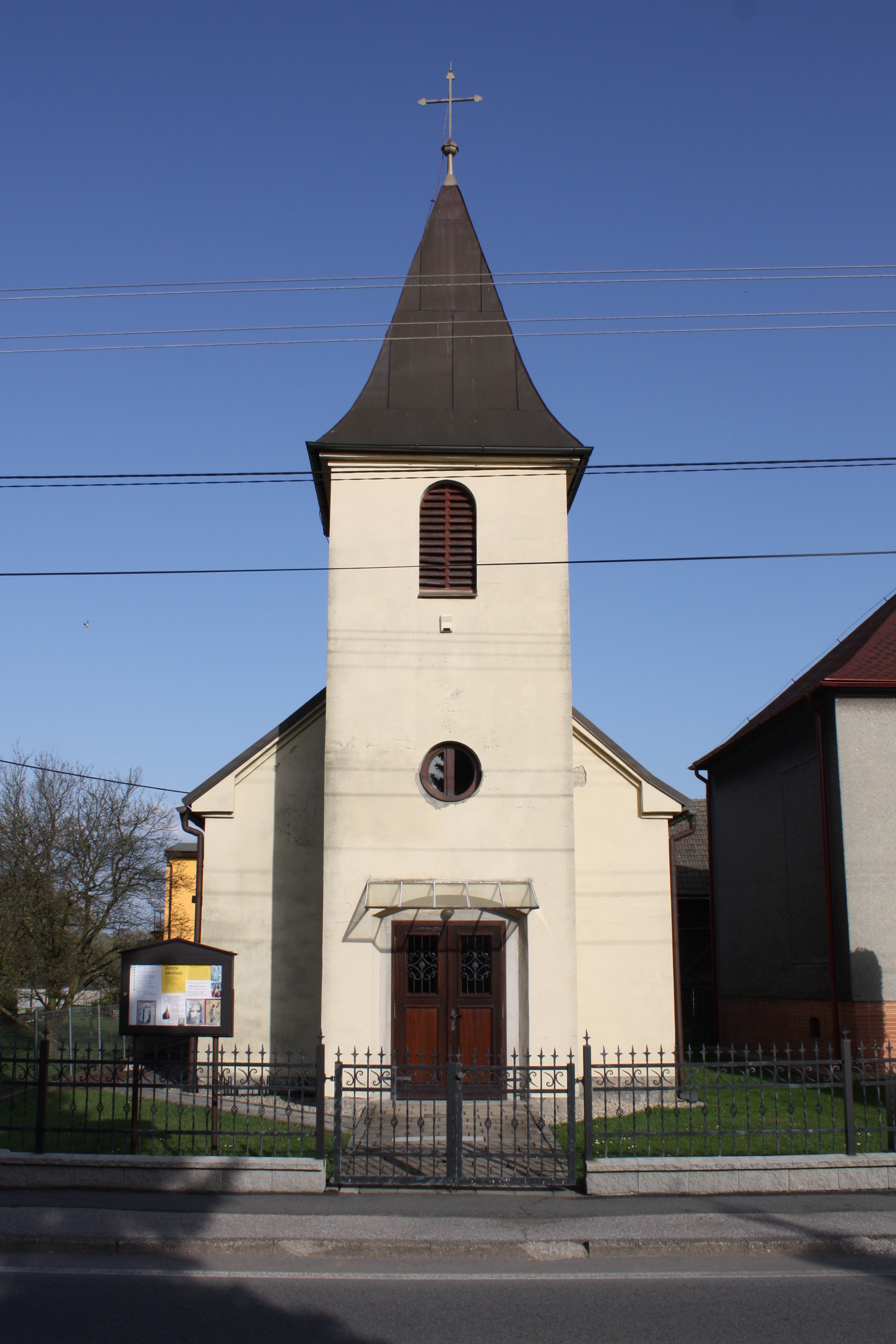 Chapel of Saints Peter and Paul in Antošovice, Ostrava-City District, Moravian Silesian Region, Czech Republic